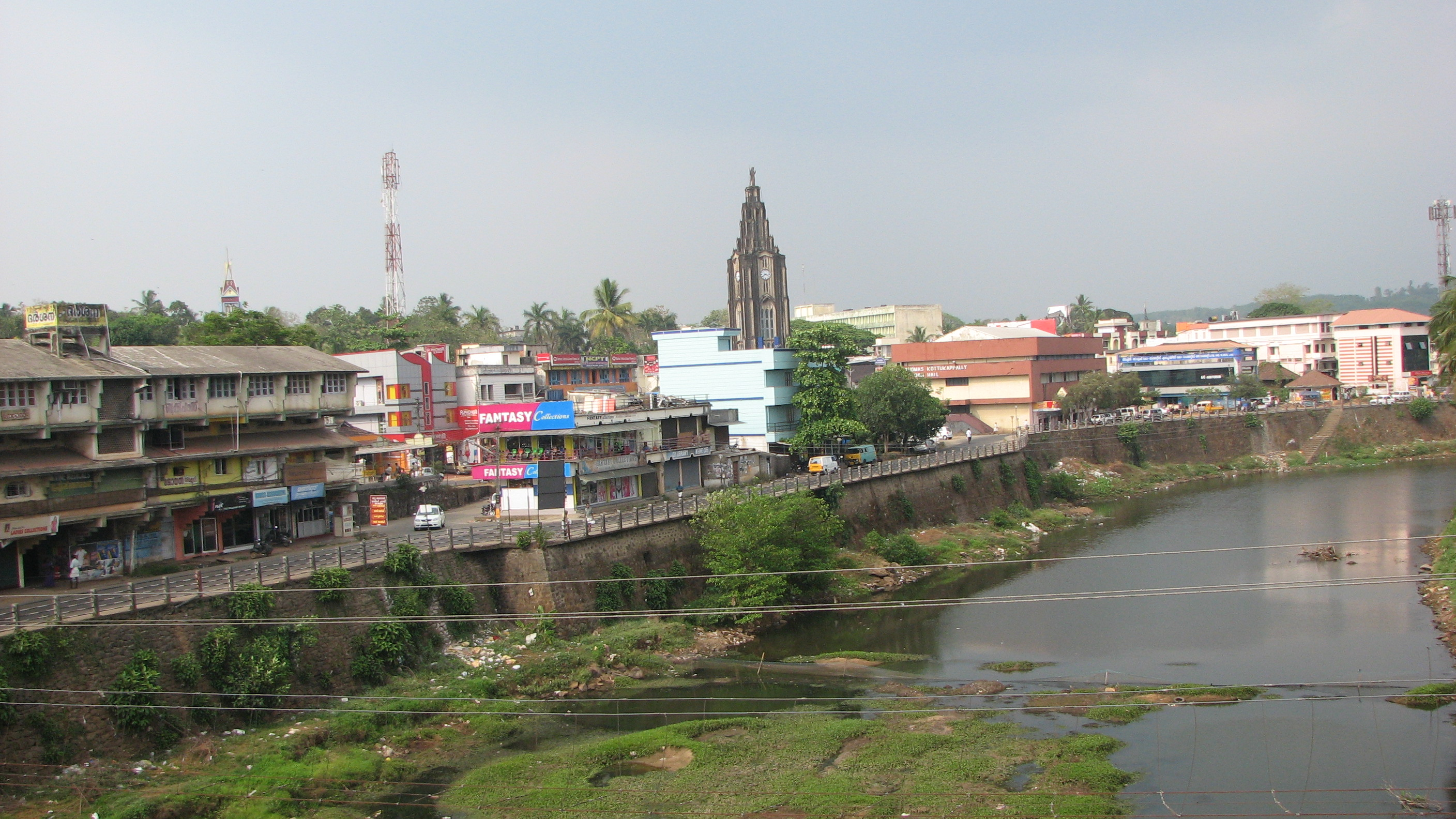 Pala Town, a view from Ponkunnam bridge. Meenachil River is flowing nearby.